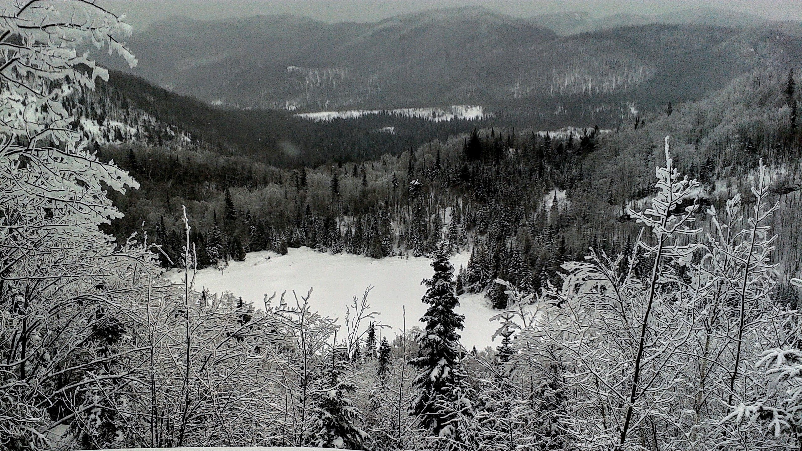 View over the hills in Forêt-Ouareau regional park on the Sentier National trail.